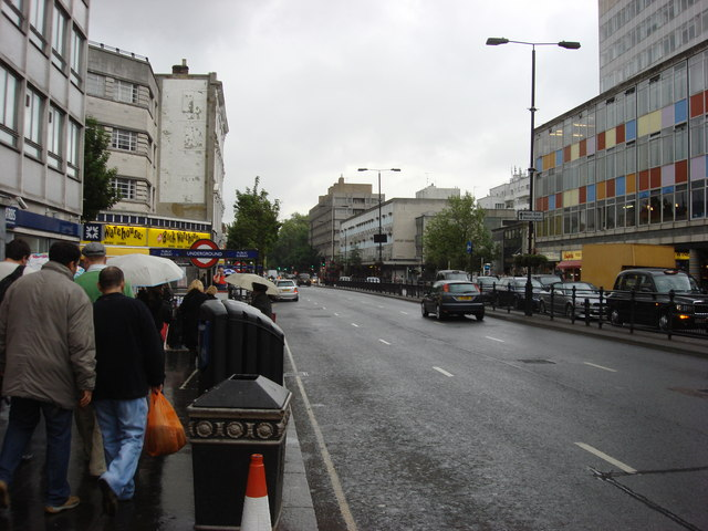 A40 Notting Hill Gate